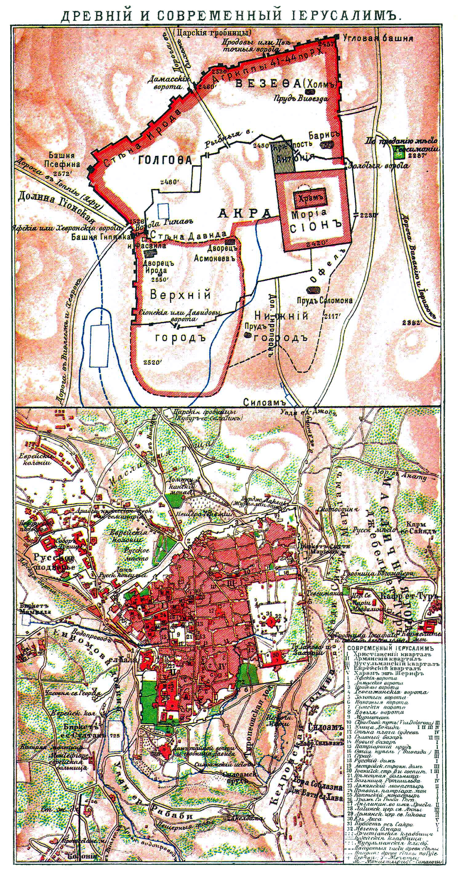 Illustration from Brockhaus and Efron Encyclopedic Dictionary (1890—1907)